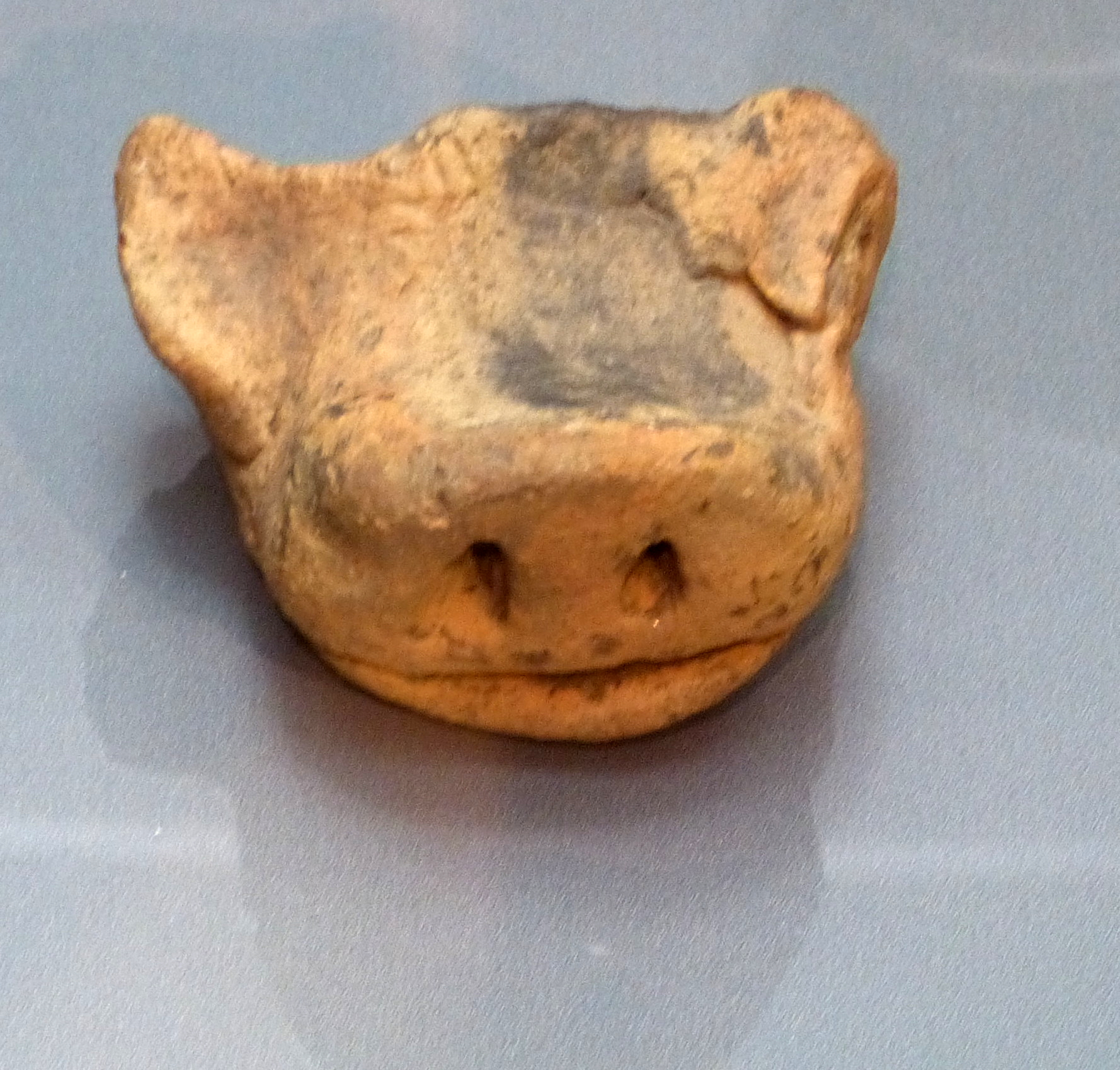 Weimar ( Thuringia ). Museum for Prehistory in Thuringia: Neolithic sculpture of a pig head from Wandersleben.